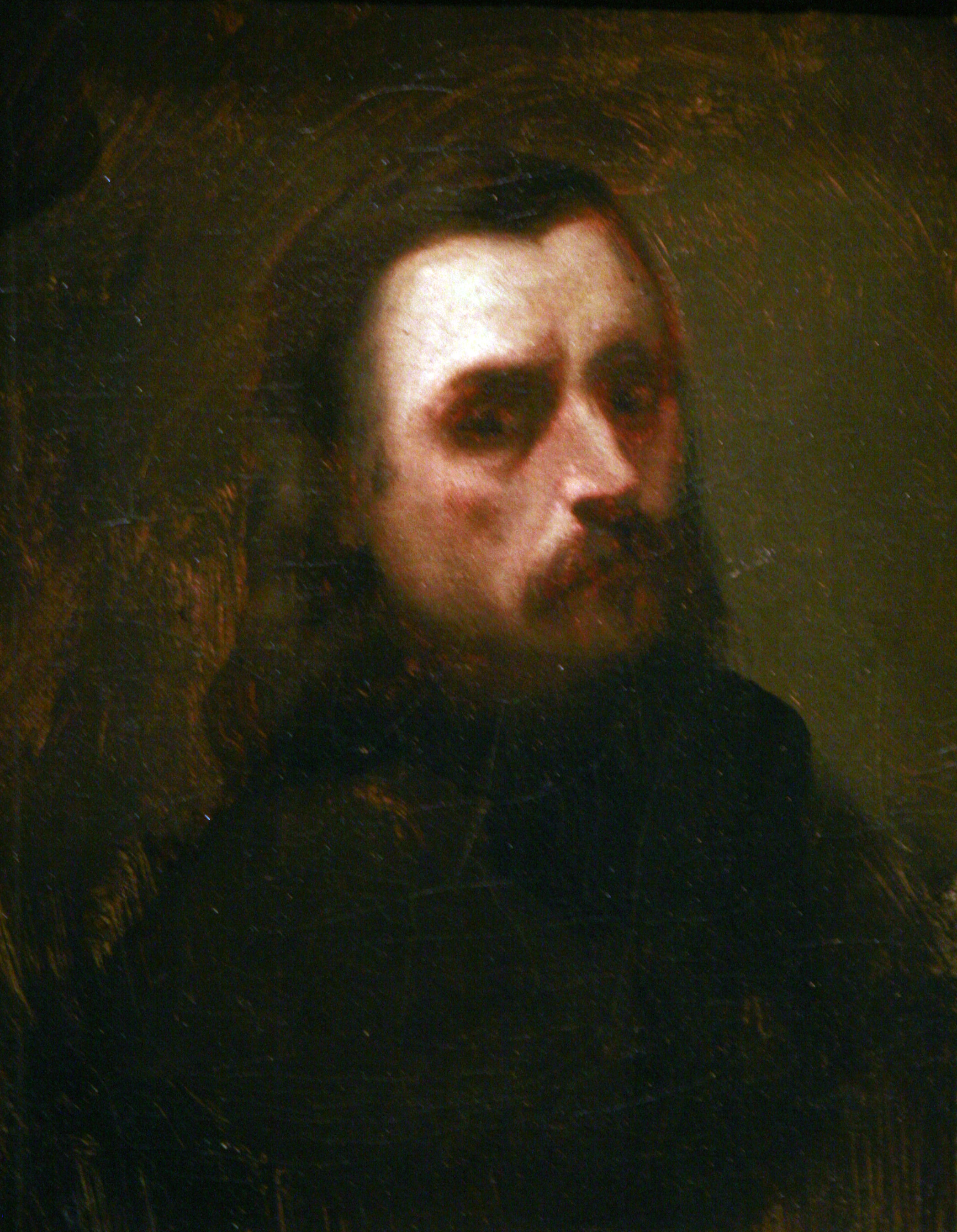 Laurent-Charles Maréchal, self-portrait at around 35 Oil on canvas, circa 1836 On display at Metz museum, access number 1531